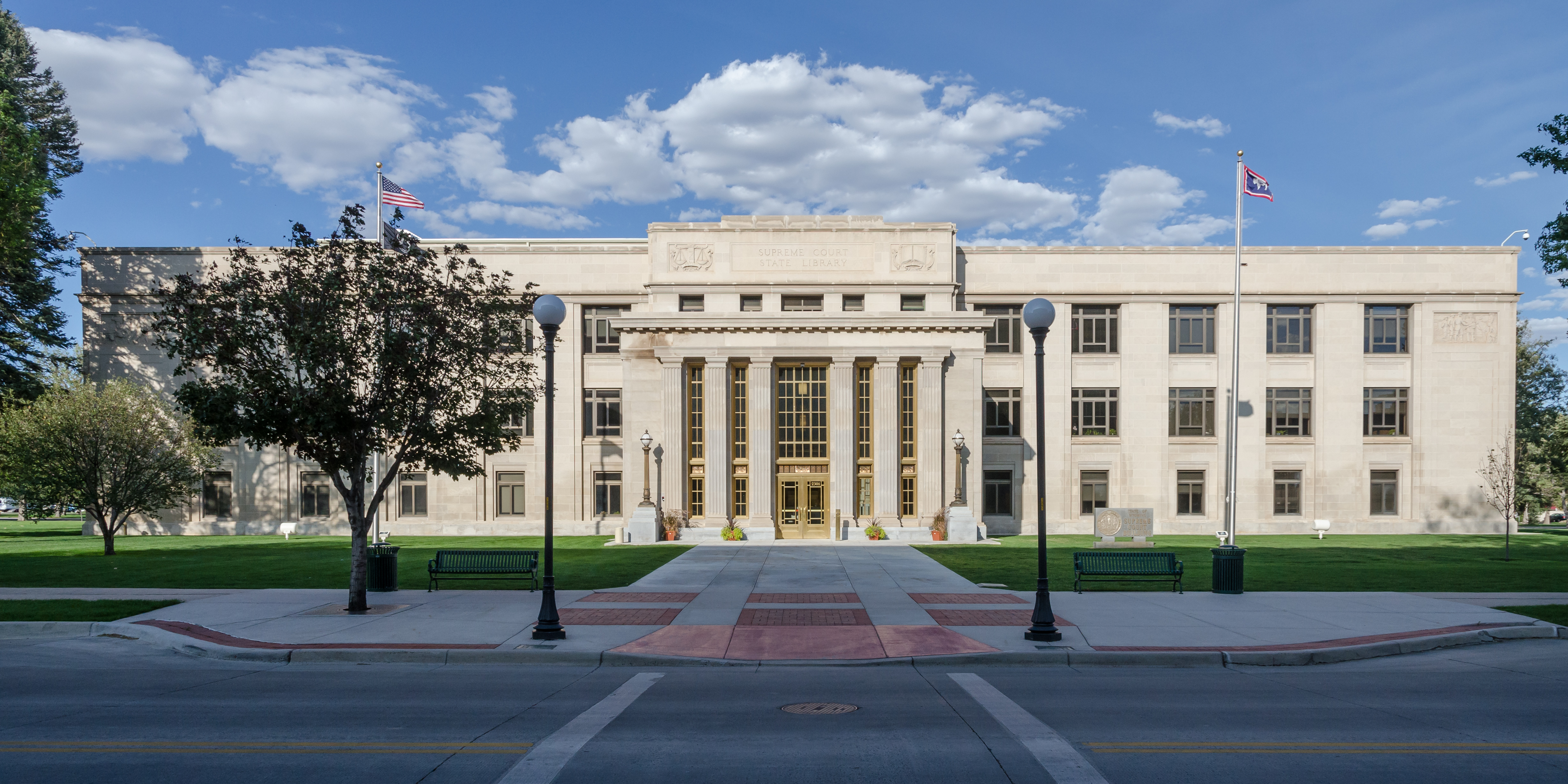 The Supreme Court of Wyoming Building as seen from Capitol Avenue, Cheyenne